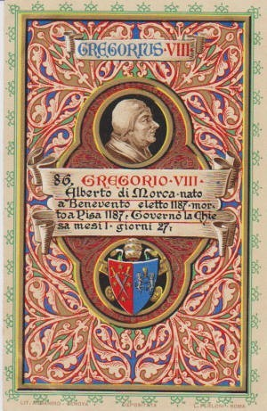 Gregorius VIII with portrait and coats of arms